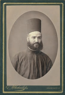 Portrait of hierodeacon Hilarion Penchev